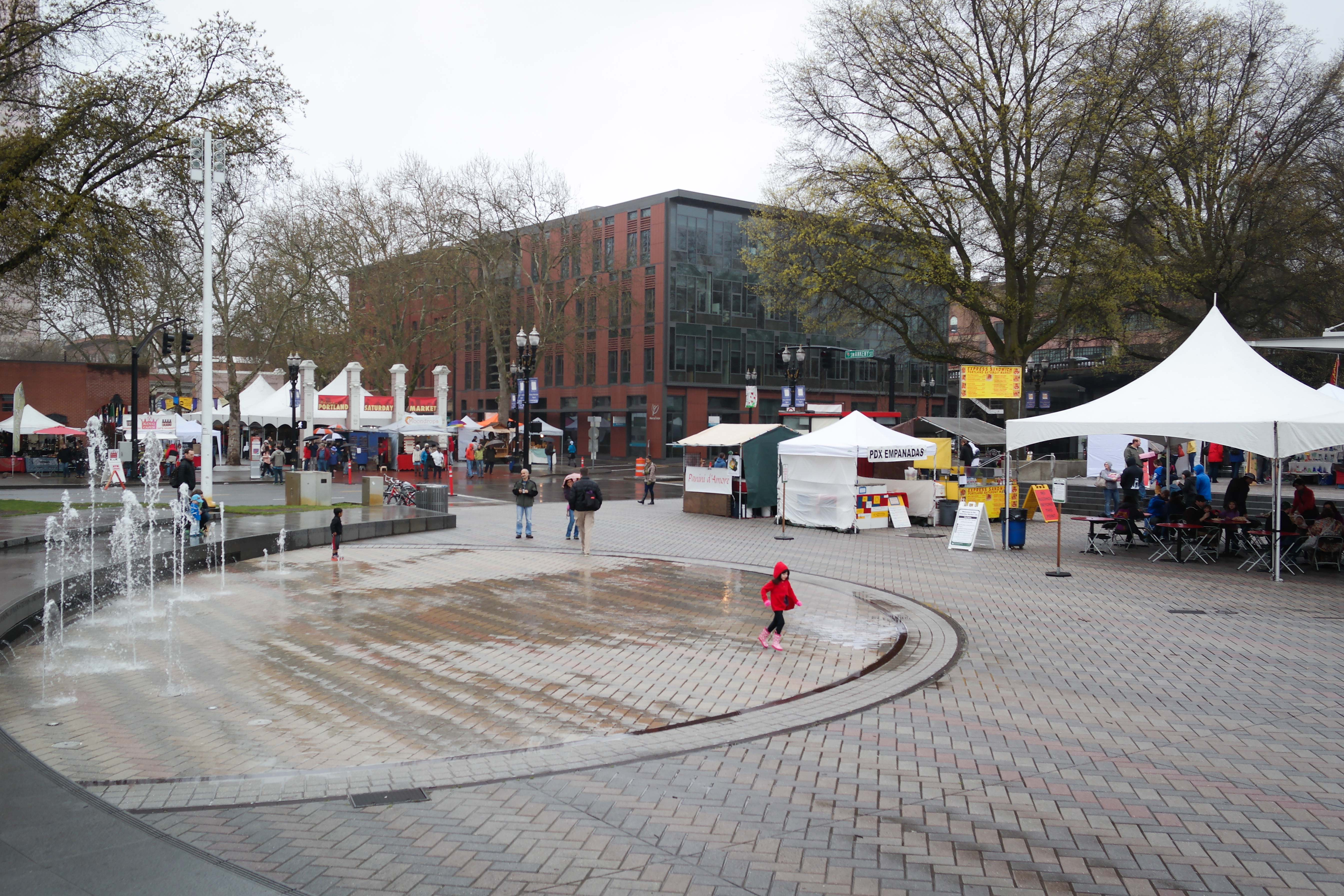 The Bill Naito Legacy Fountain, with the Portland Saturday Market in the background and at right.